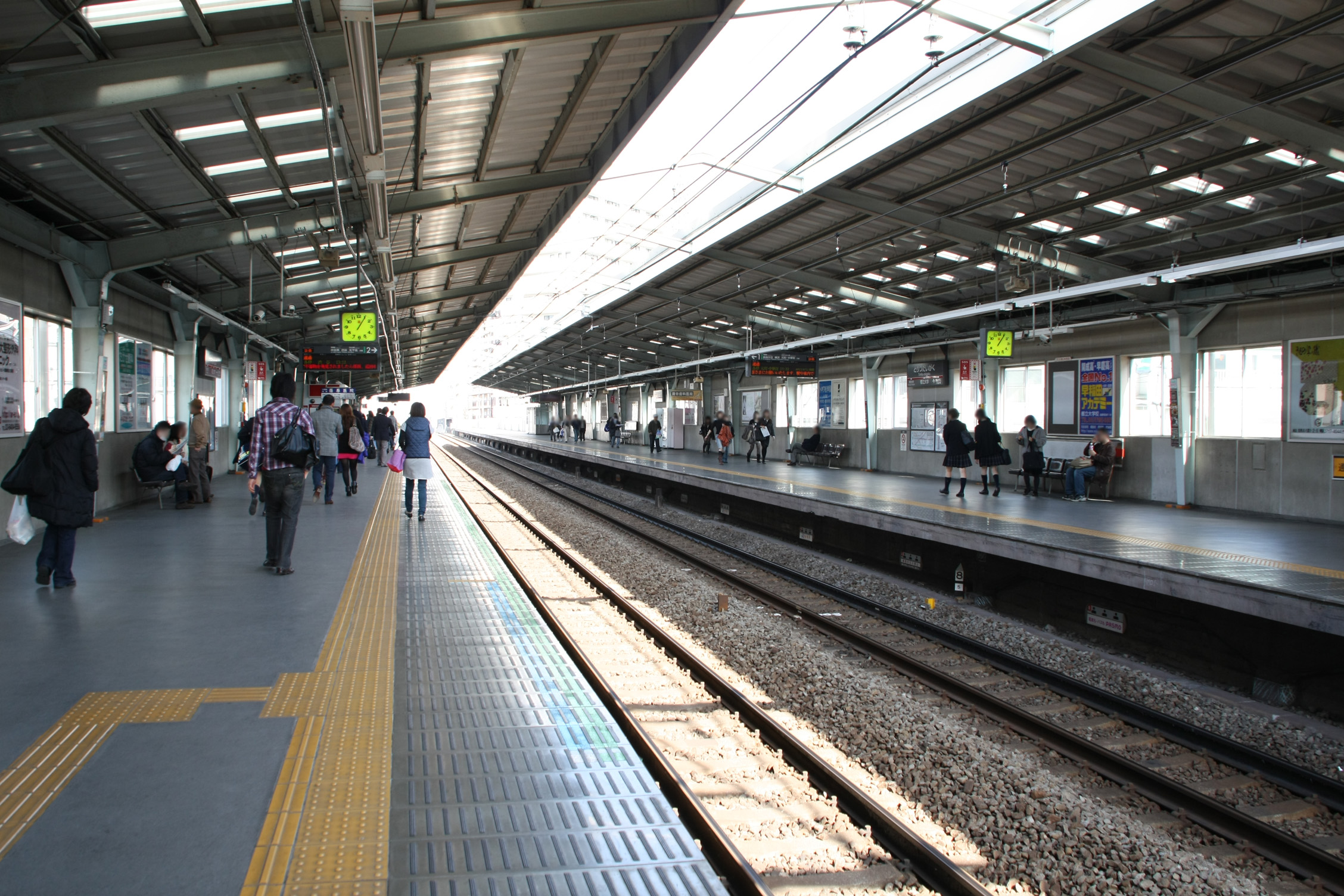 Toritsu-daigaku Station Platform